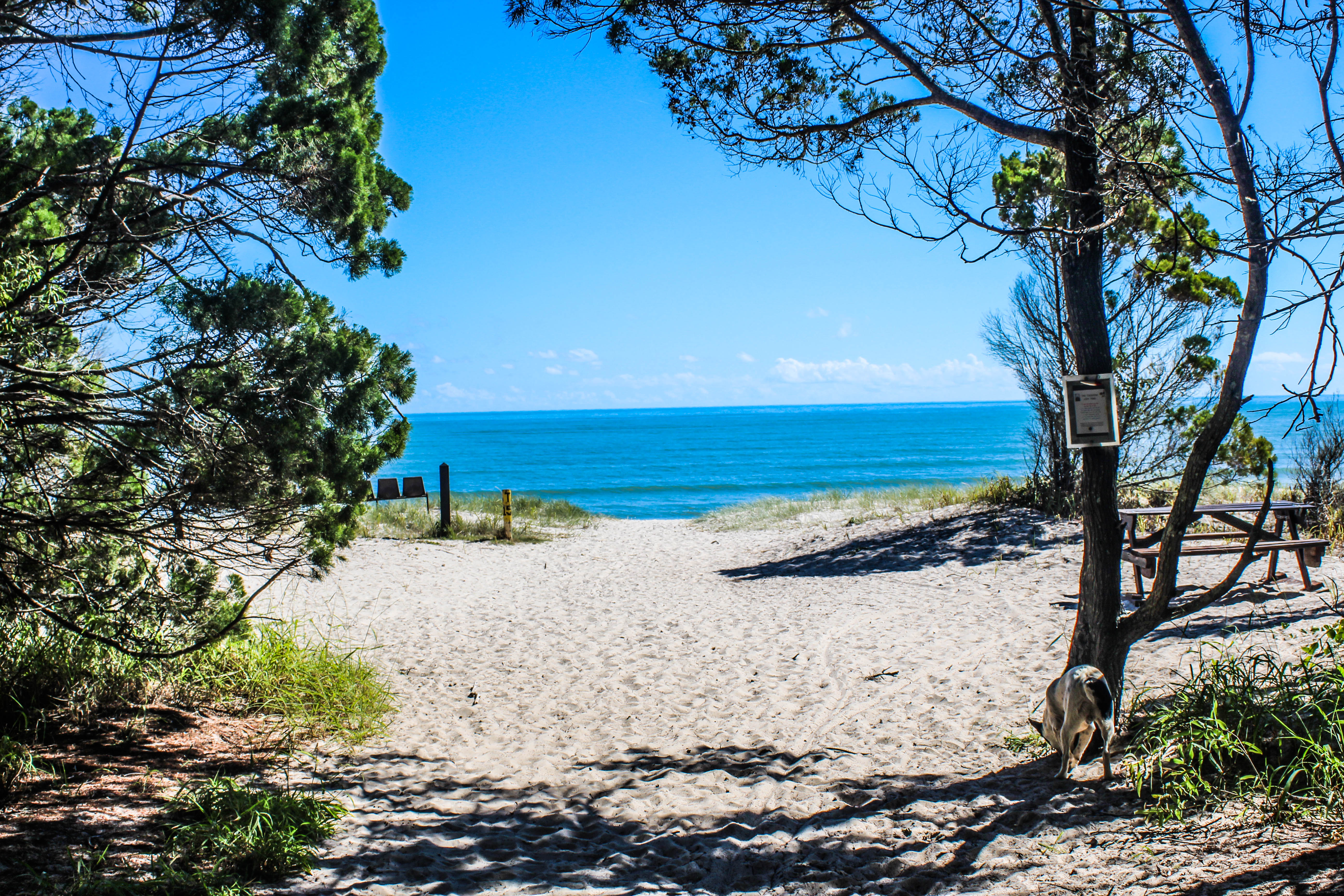 Toogoom Beach Queensland - Great Sandy Strait